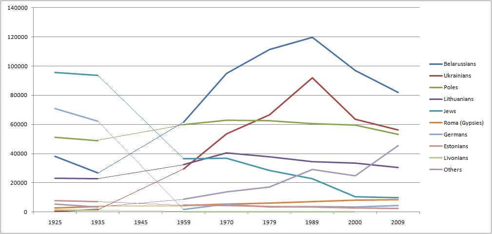 Evolution of smaller ethnic minorities in Latvia. The Second World War had significant repercussions on the country's ethnic composition. The German and Jewish population strongly reduced in numbers during the war period. The number of Belarussians and Ukrainians follows a pattern similar to that of ethnic Russians.